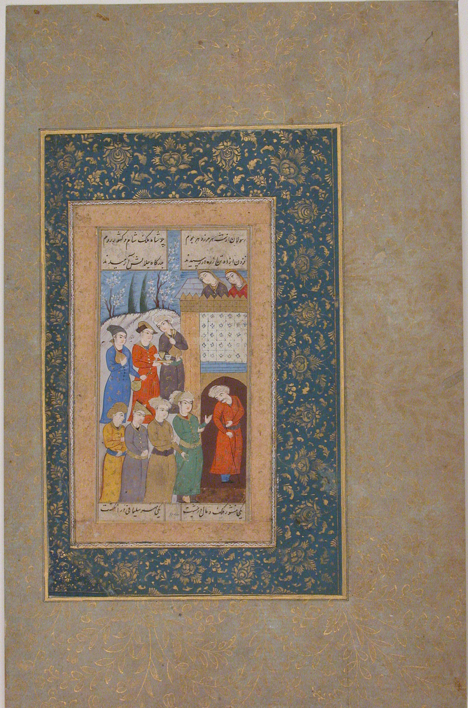 Illustrated album leaf; Codices